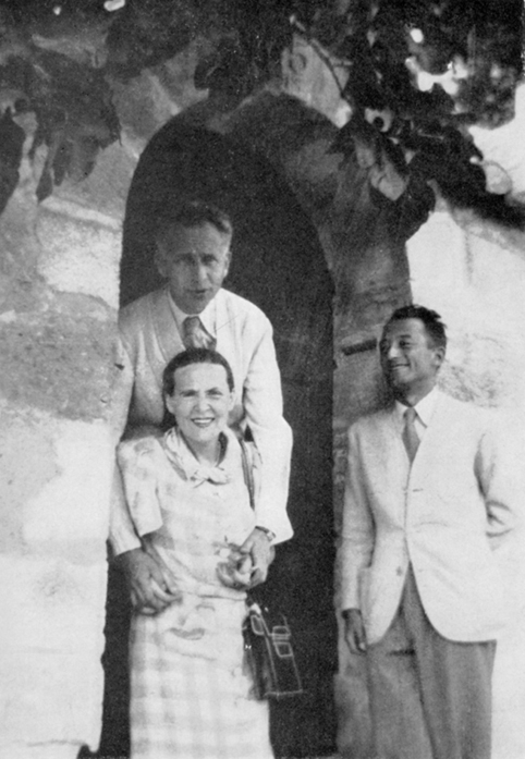 French poet and publisher Pierre Seghers with French authors Louis Aragon & Elsa Triolet. Villeneuve-lès-Avignon, summer 1941